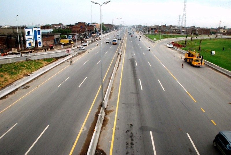 The Lahore Ring Road, currently under construction, 2009